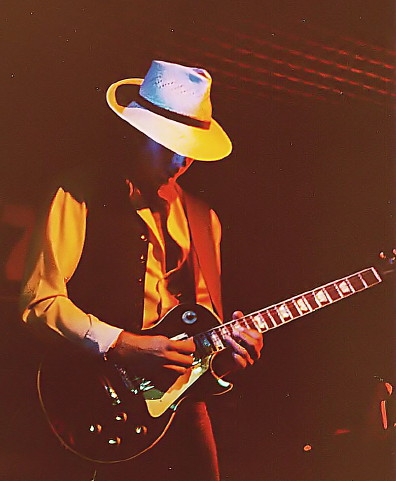 Mark Mazur of Holme on stage at Art Stock's Royal Manor South in Wall, NJ during the Summer 1977. Photo by LHCollins.